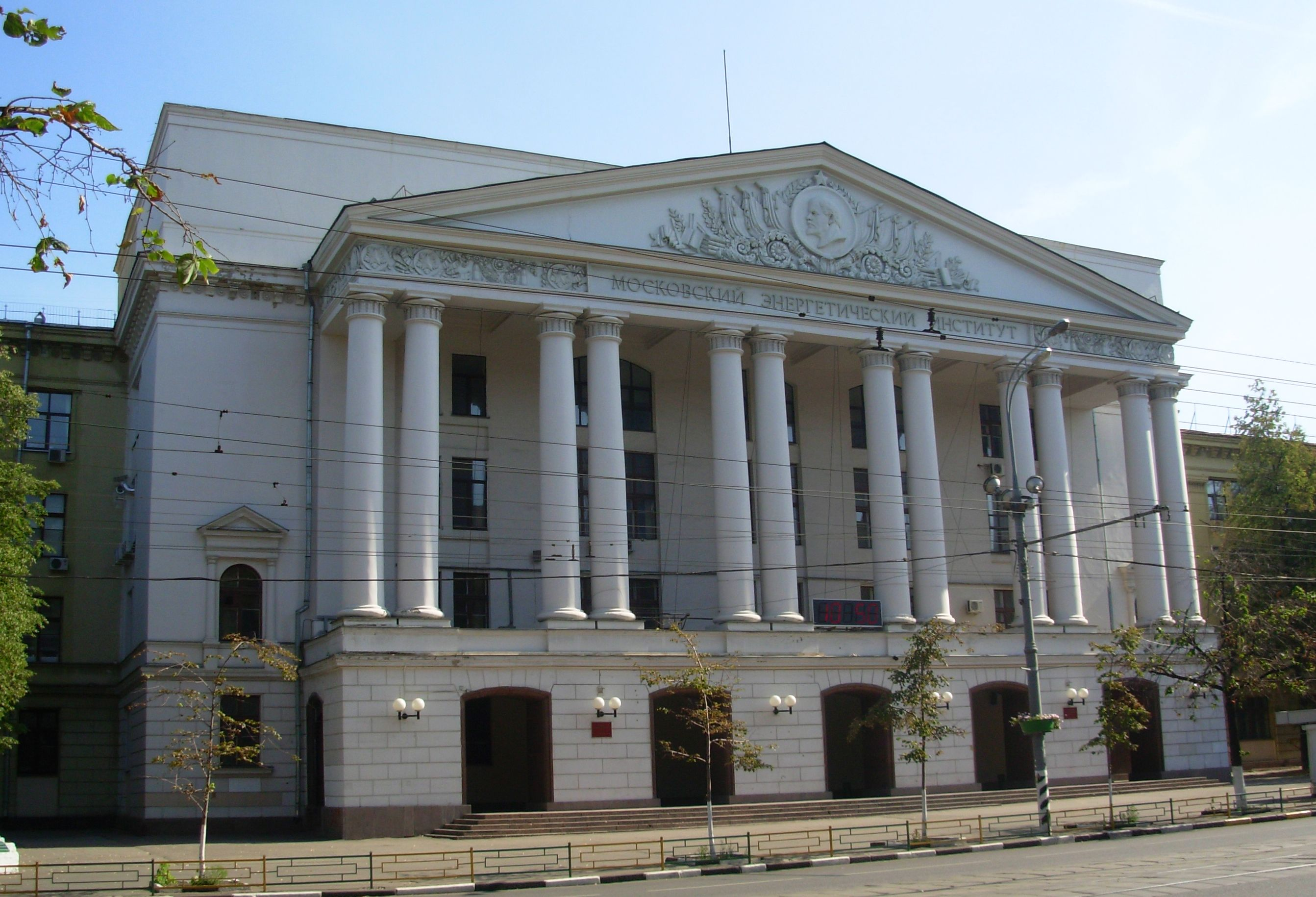 Moscow Power Engineering Institute Russia